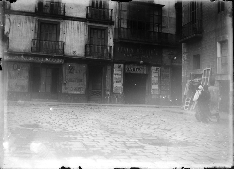 Còpia digital del negatiu original de vidre. Teatro del Circo Barcelonés Llegat Dolors Moros, 2010 Museu d'Art Jaume Morera, Lleida. 3278